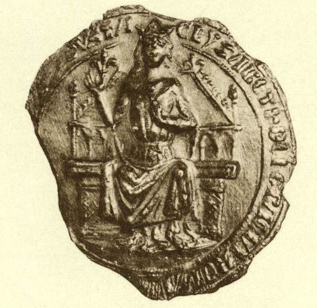 This is a scan of the historical document